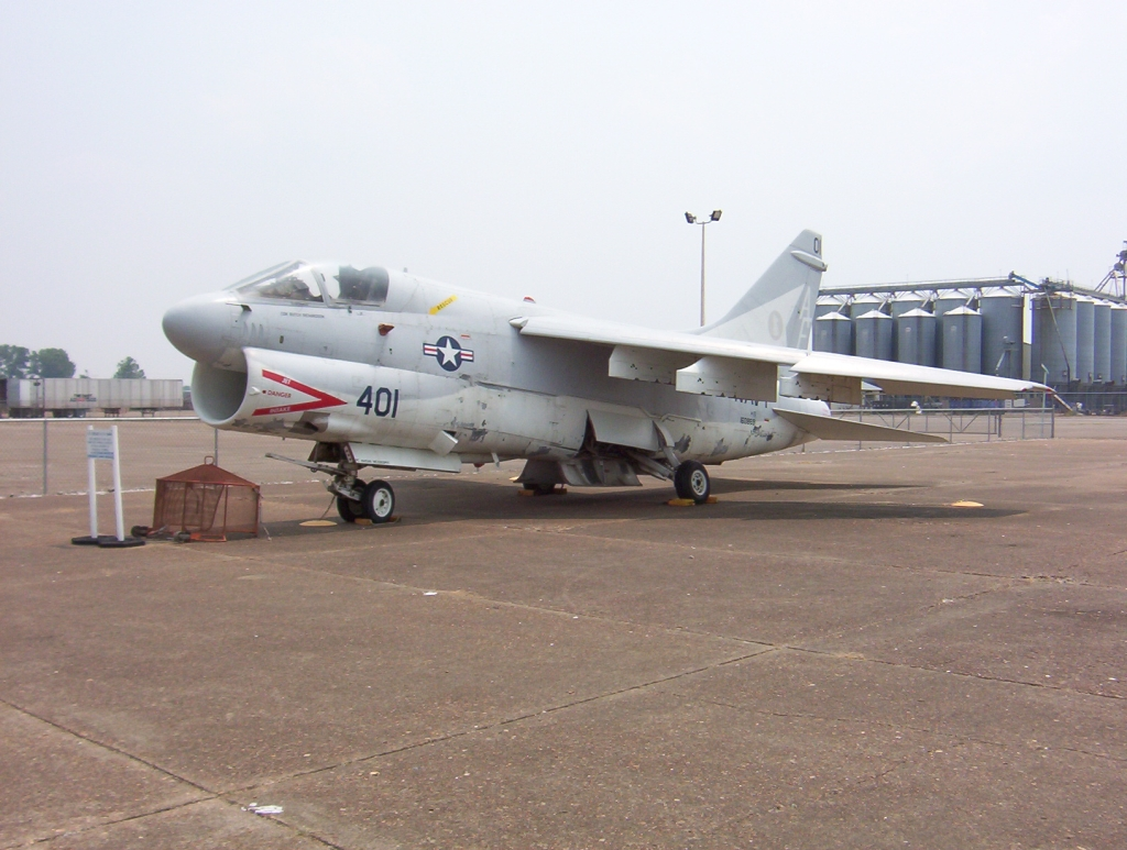 Photo of an LTV A-7E Corsair II in front of the Veterans' Museum in Halls, Tennessee (USA).